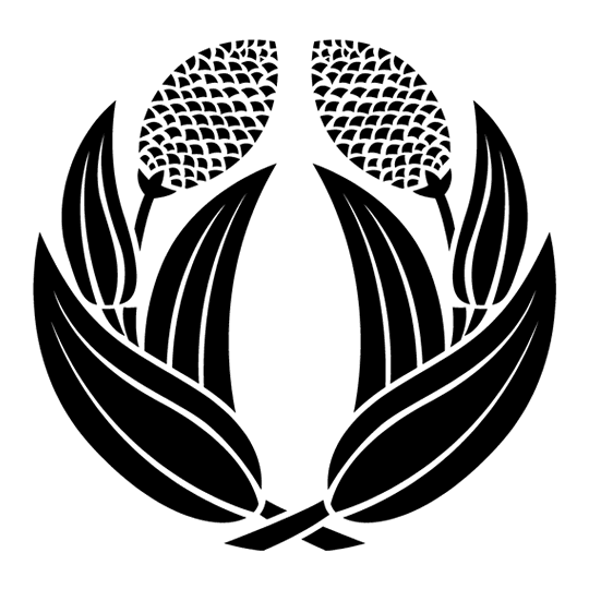 Japasese crest, Dakiawa